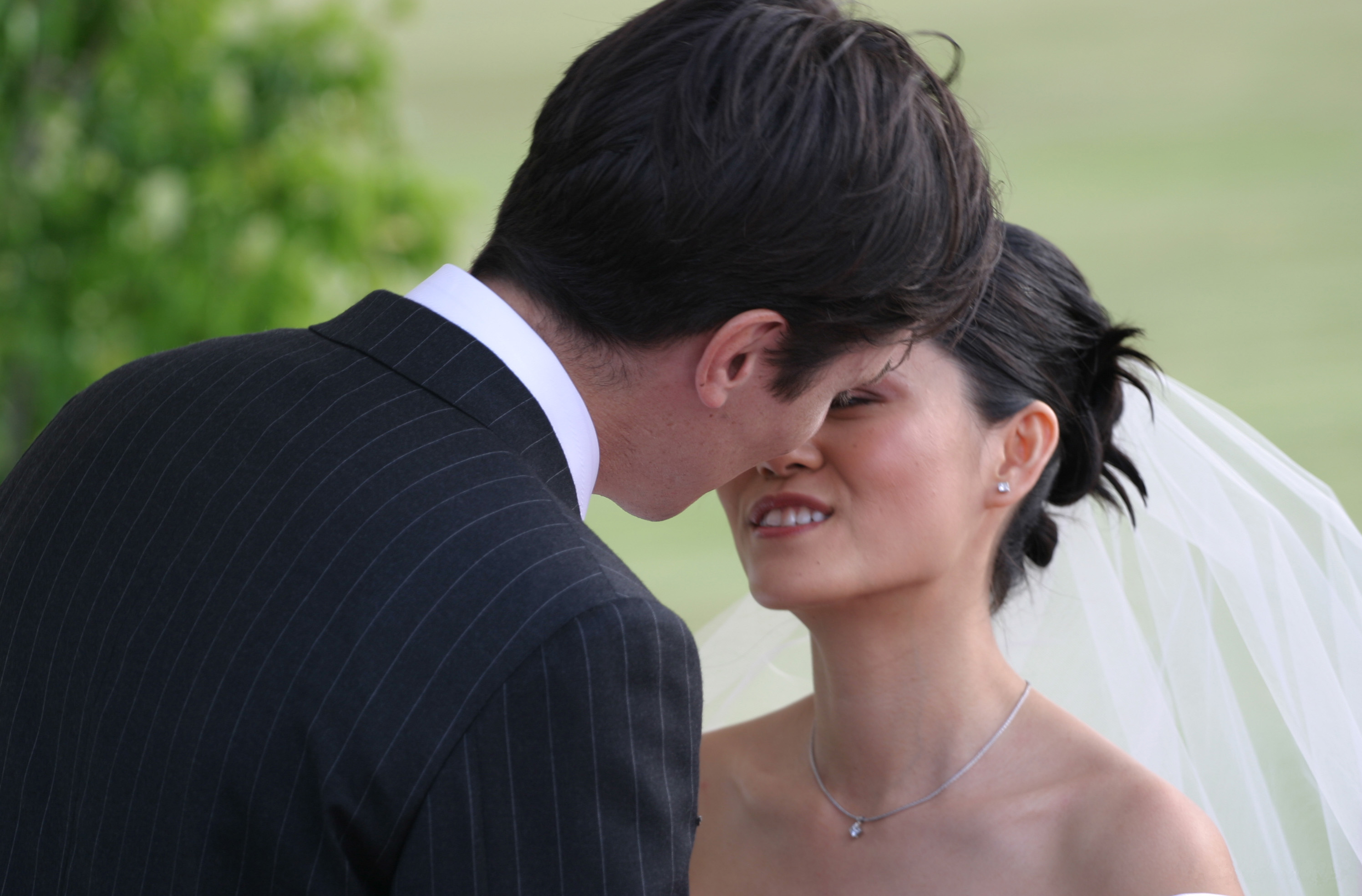 The wedding vows are complete - you may now kiss the bride.